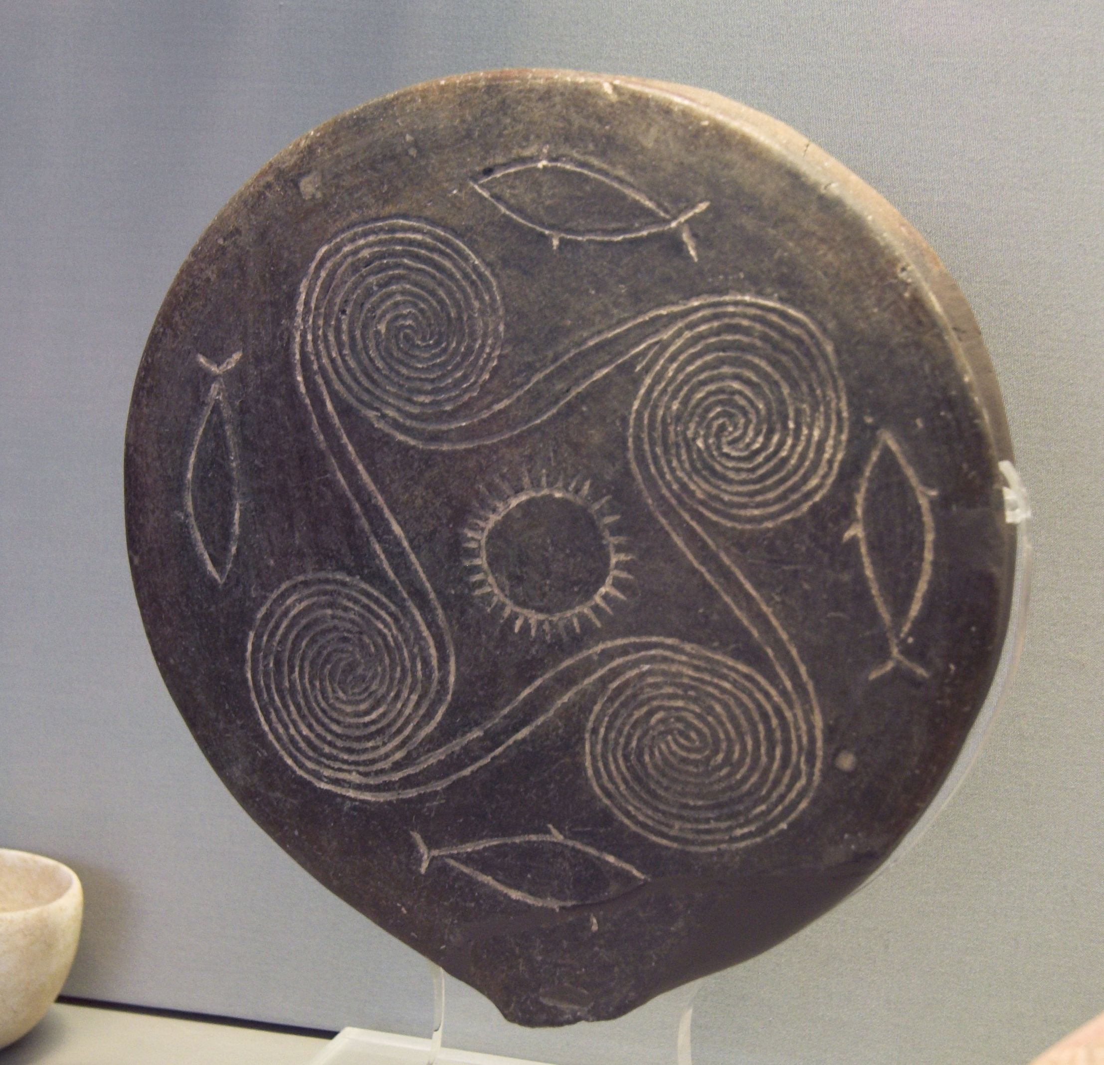 Clay Cycladic "frying-pan" with the sun, with four coils and four fish. "Non feminine" type. Found on Naxos. Early cycladic II period, 2700-2500 BC. National Archaeological Museum Athens, N 6140A.